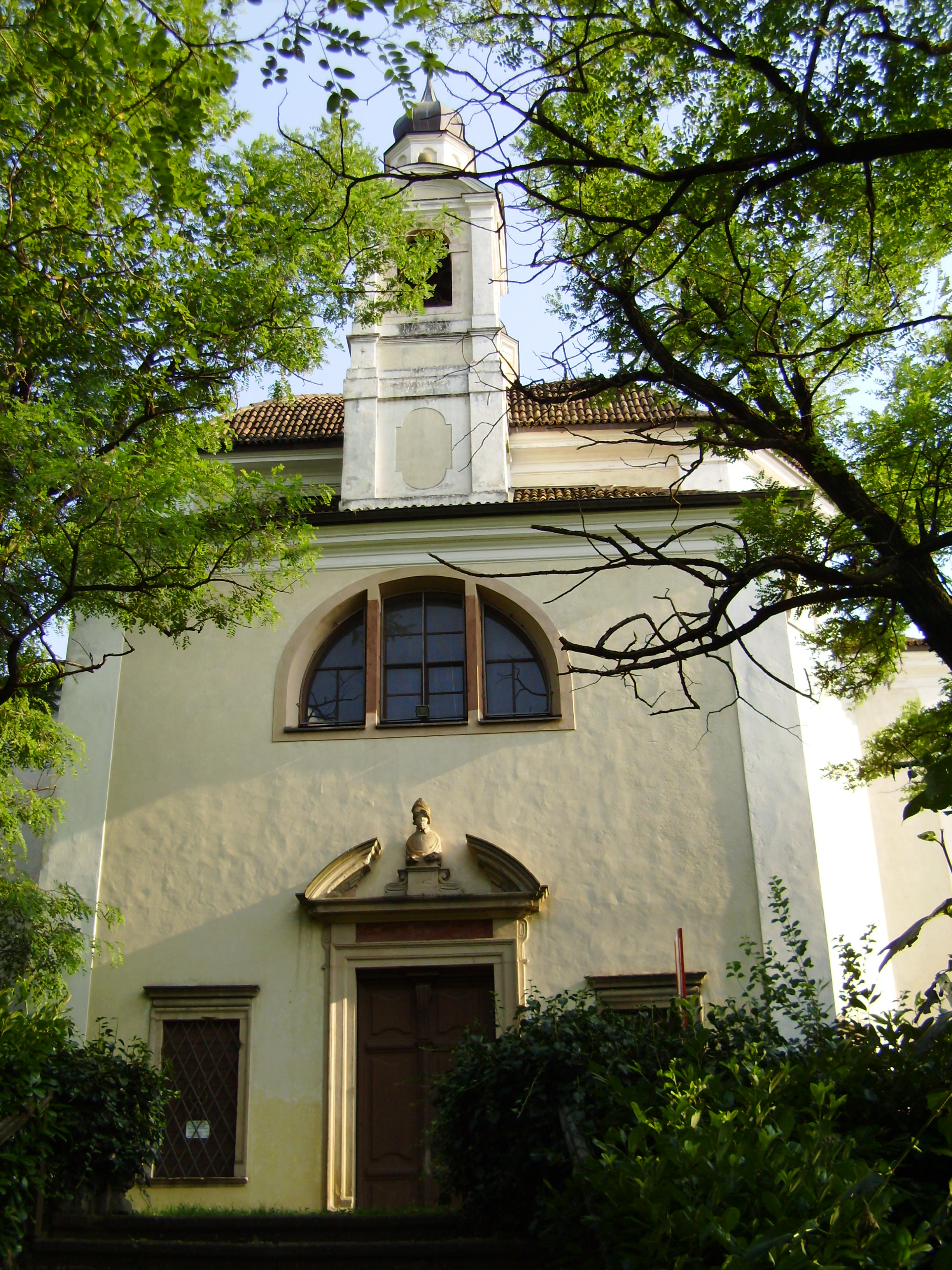 The Church on Virgolo Hill, near Bolzano/Bozen